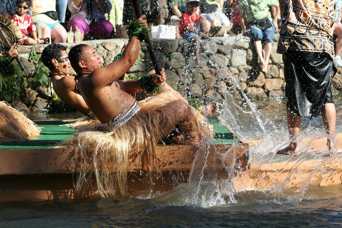 Fijian dancer from the Rainbows of Paradise Canoe Pageant.